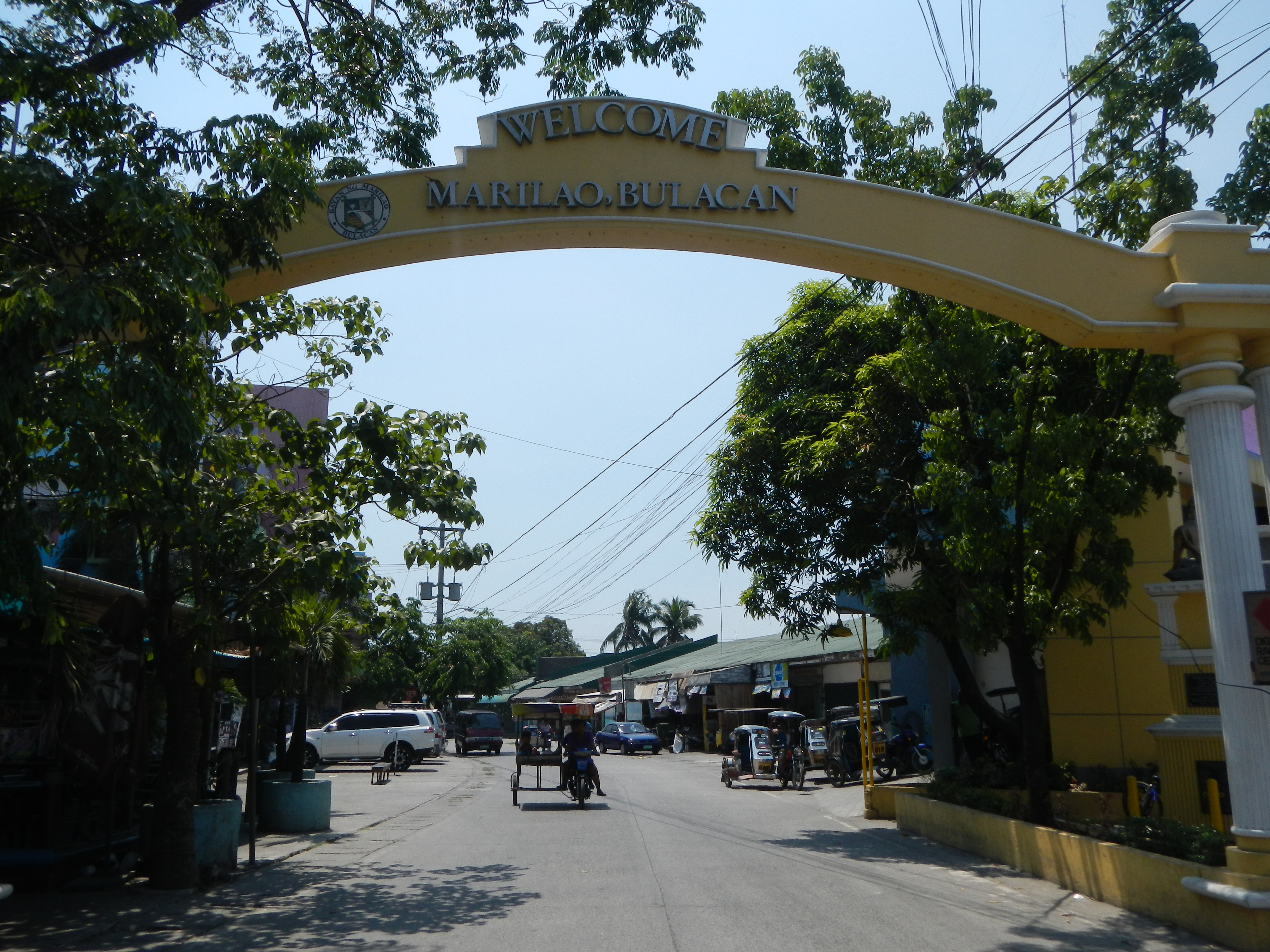 Marilao, Bulacan Welcome arch (along MacArthur Highway) is located along MacArthur Highway, in Barangay Ibayo, Marilao, Bulacan.